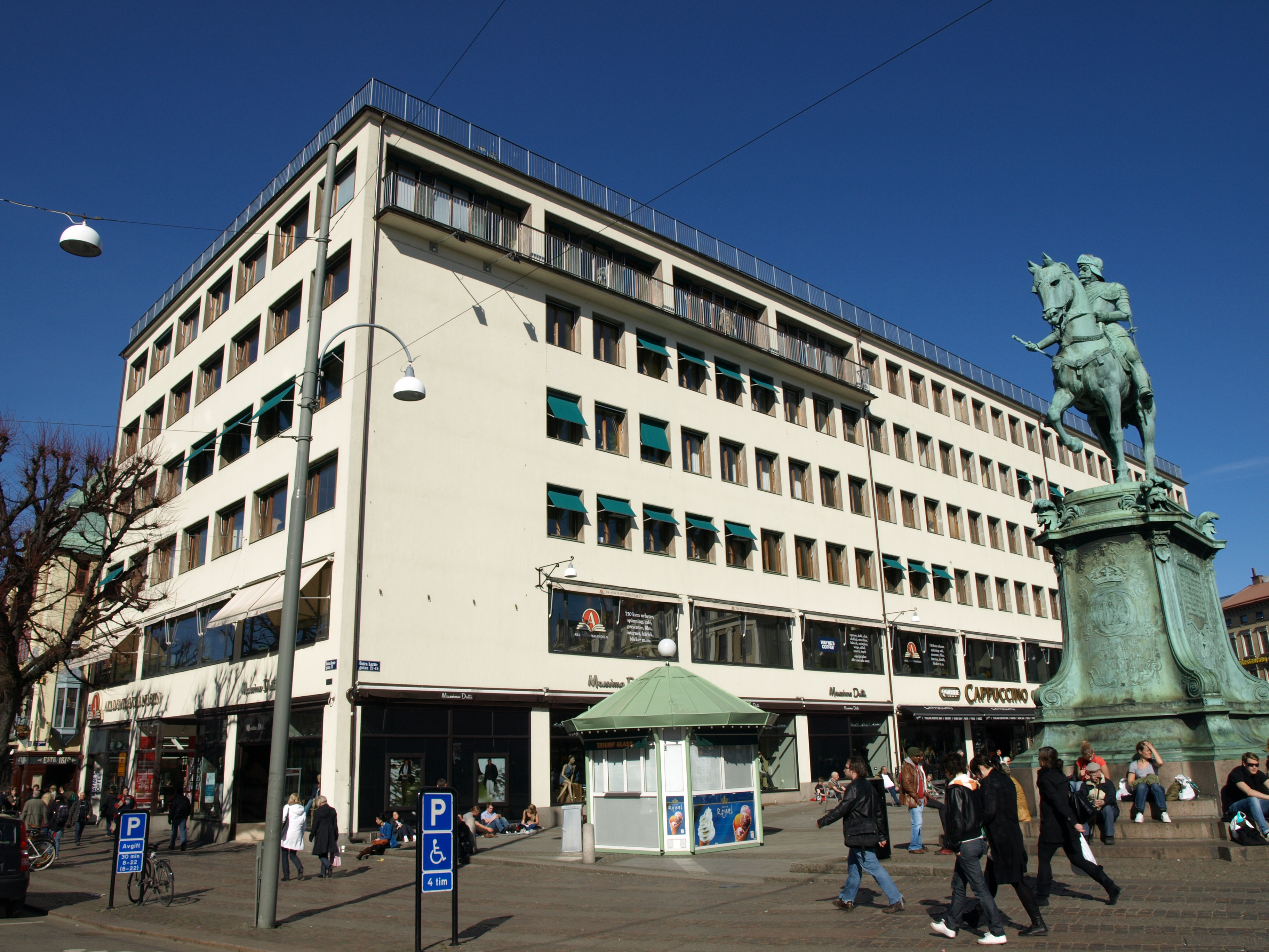 "Centrumhuset" at Kungsportsplatsen, Gothenburg, Sweden